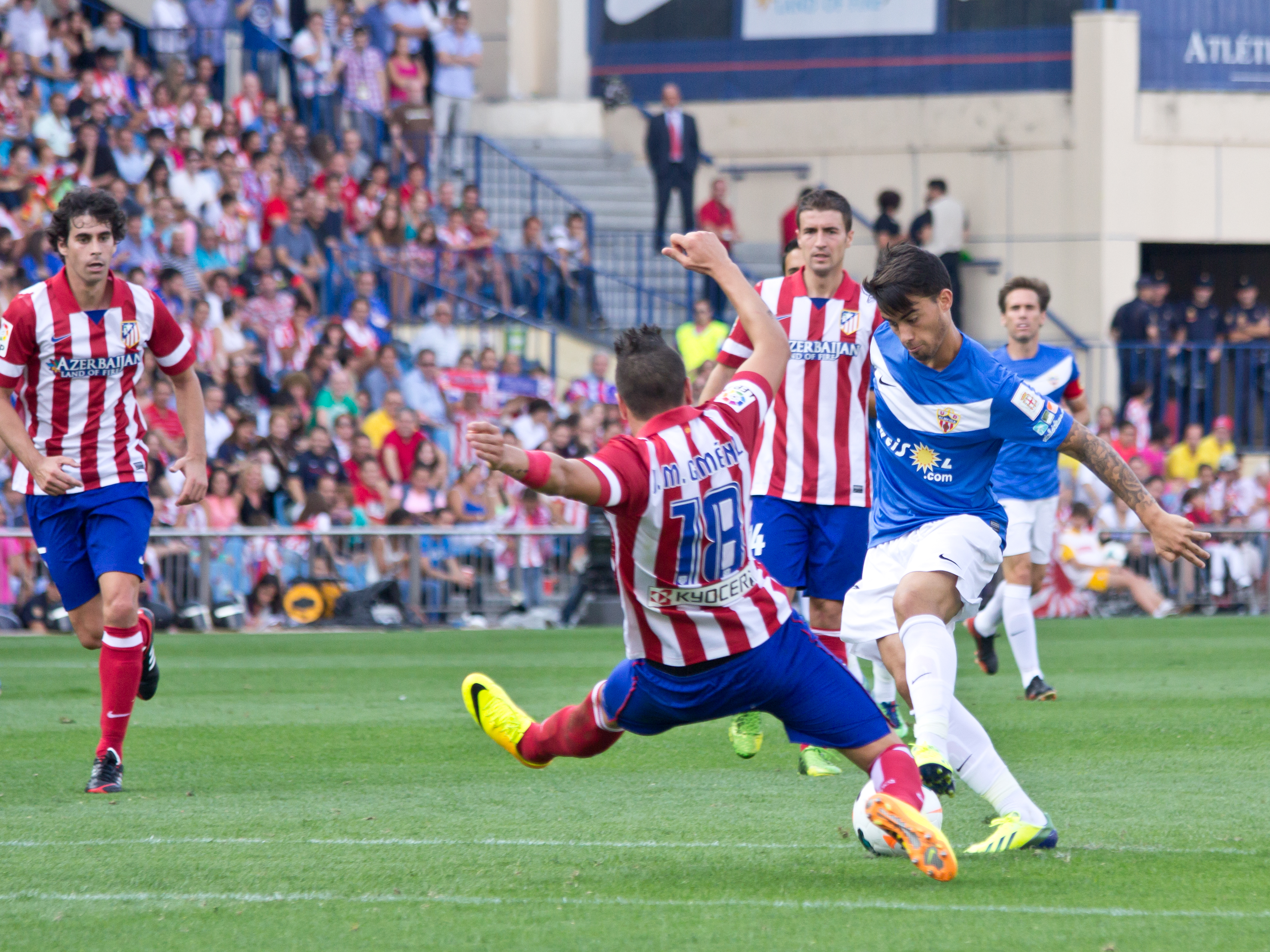 Atlético de Madrid vs UD Almería, 2013-2014 season.